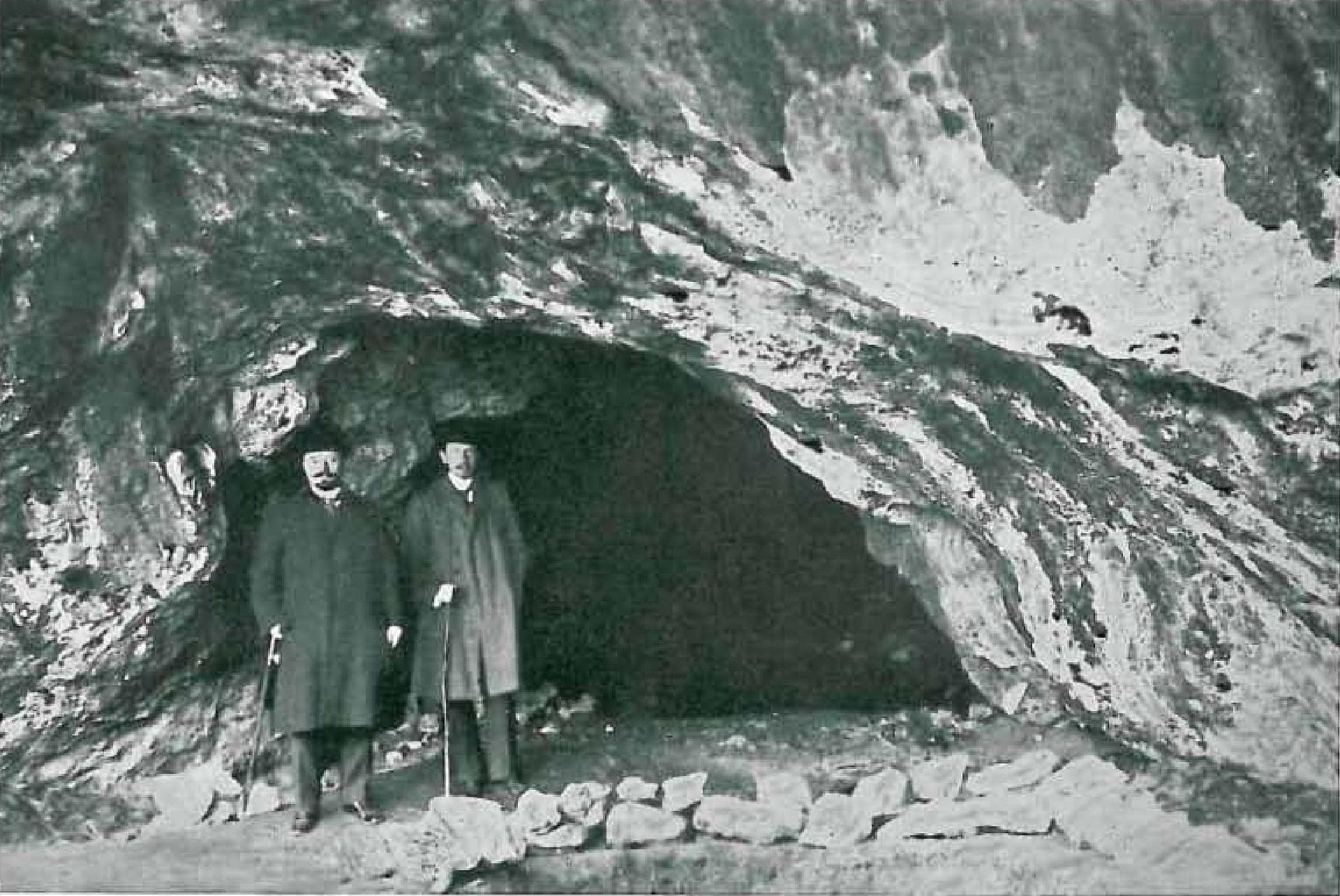 Entrance of the Mackó Cave, Pilis Mountains, Hungary